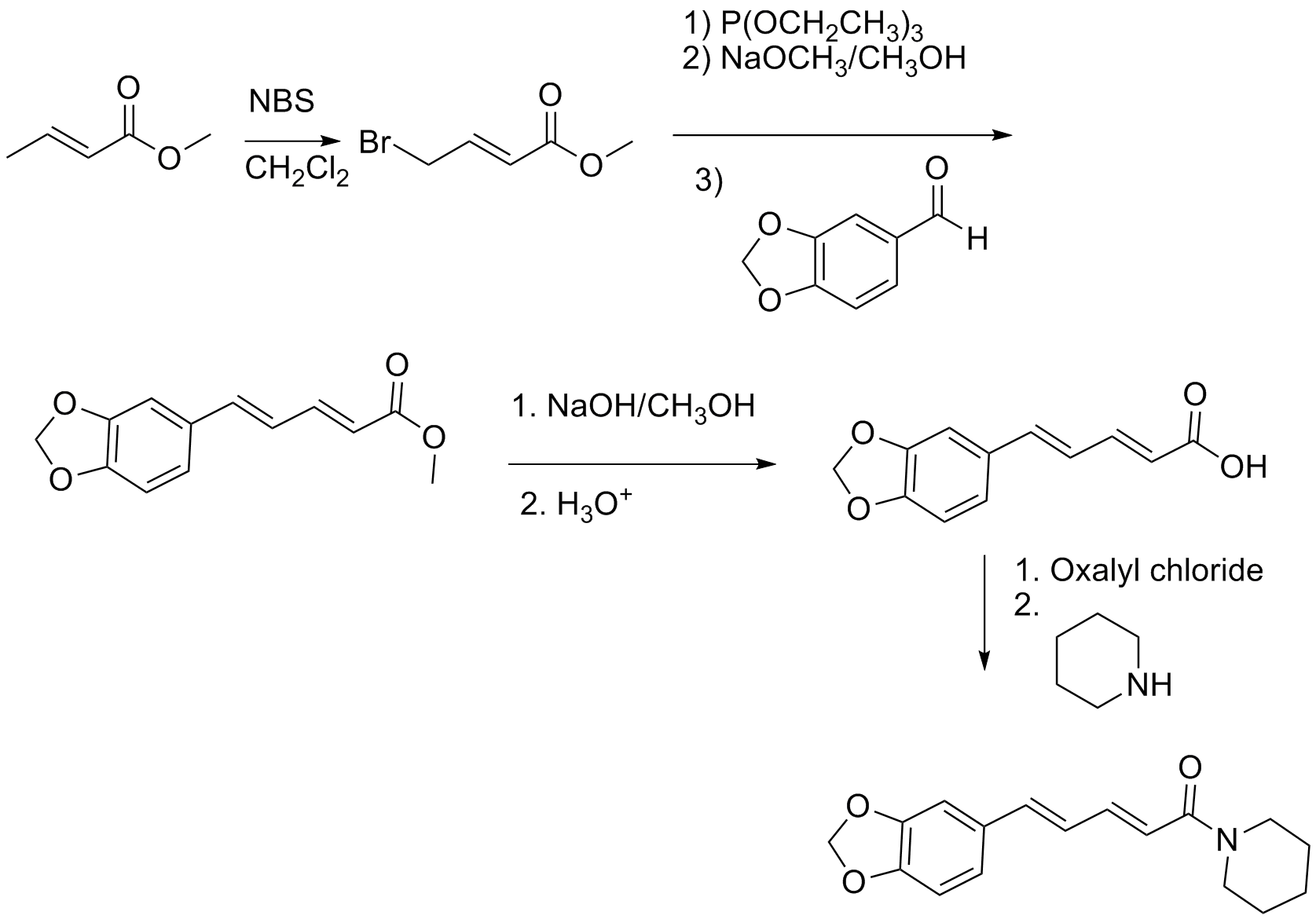 Reactieschema voor de synthese van piperine